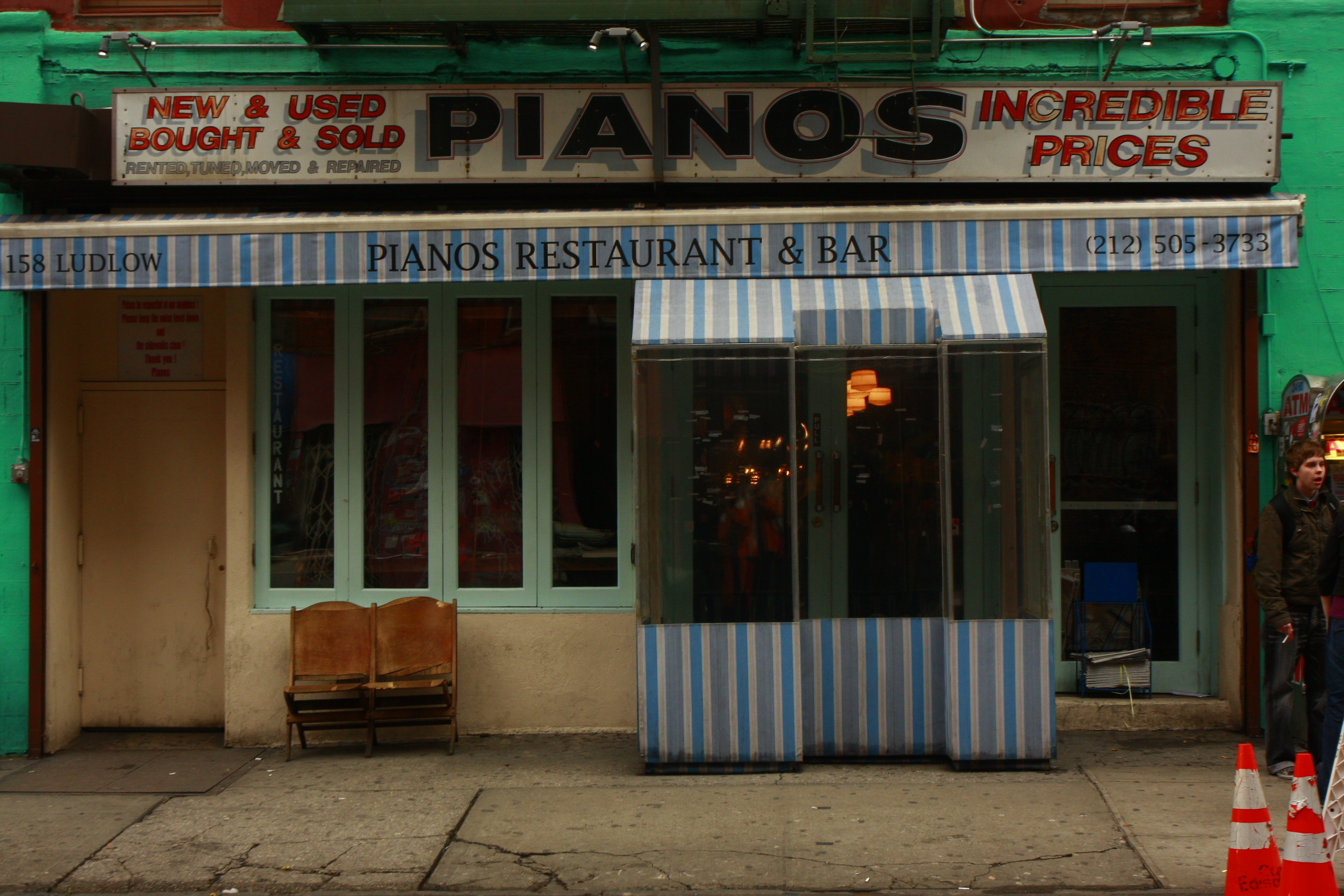 This photo is of Wikipedia Takes Manhattan location code 141, Piano's bar (New York City). - Piano's bar (New York City)